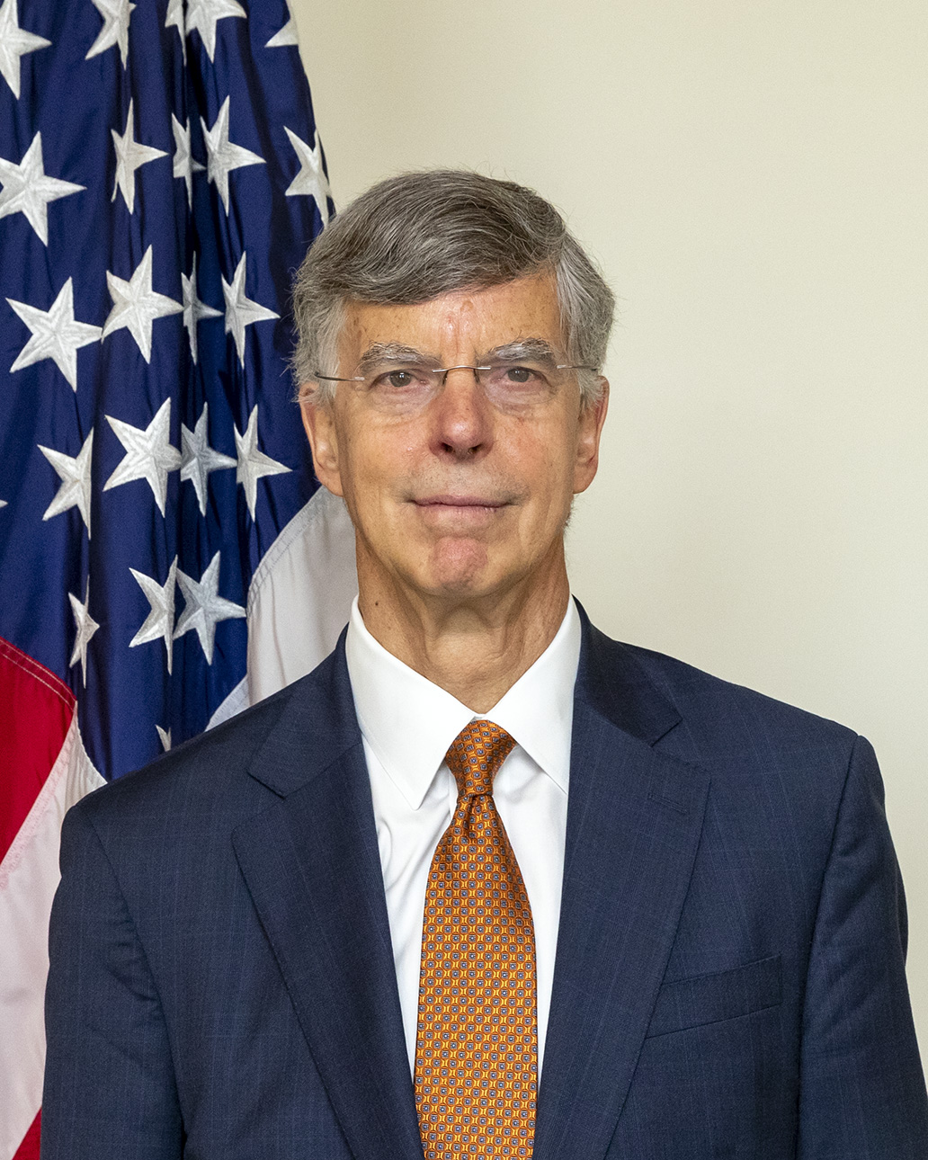 William B. Taylor, Jr., Chargé d’Affaires, a.i. of the Embassy in Kyiv, Ukraine